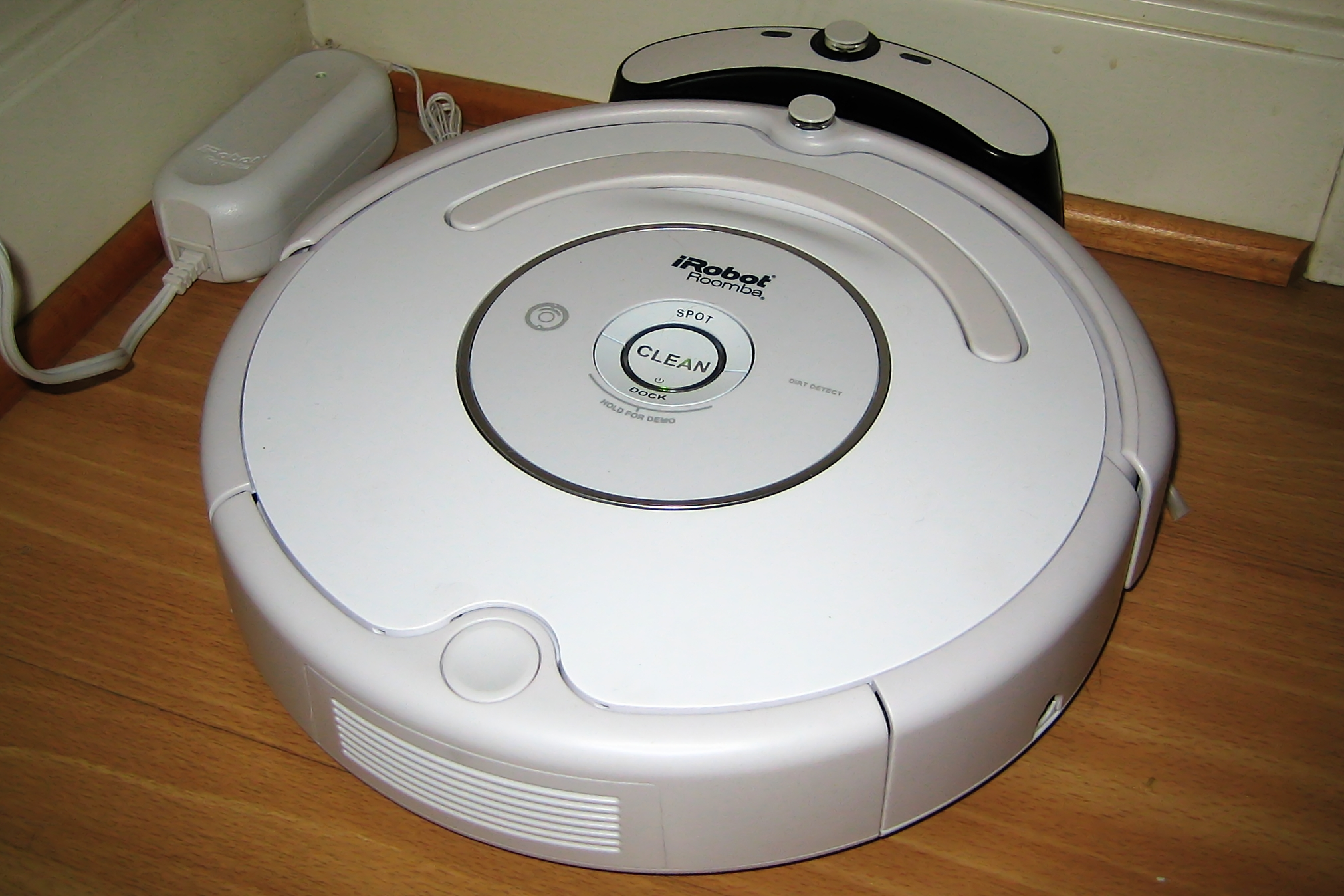 no original description. Most likely a Roomba 530. Recharge base on top, transformer on top left.